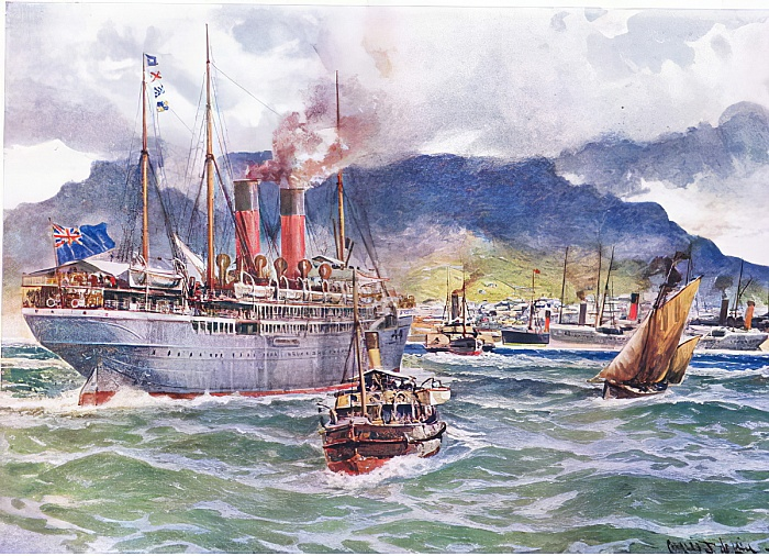 Transports in Table Bay during the South African War